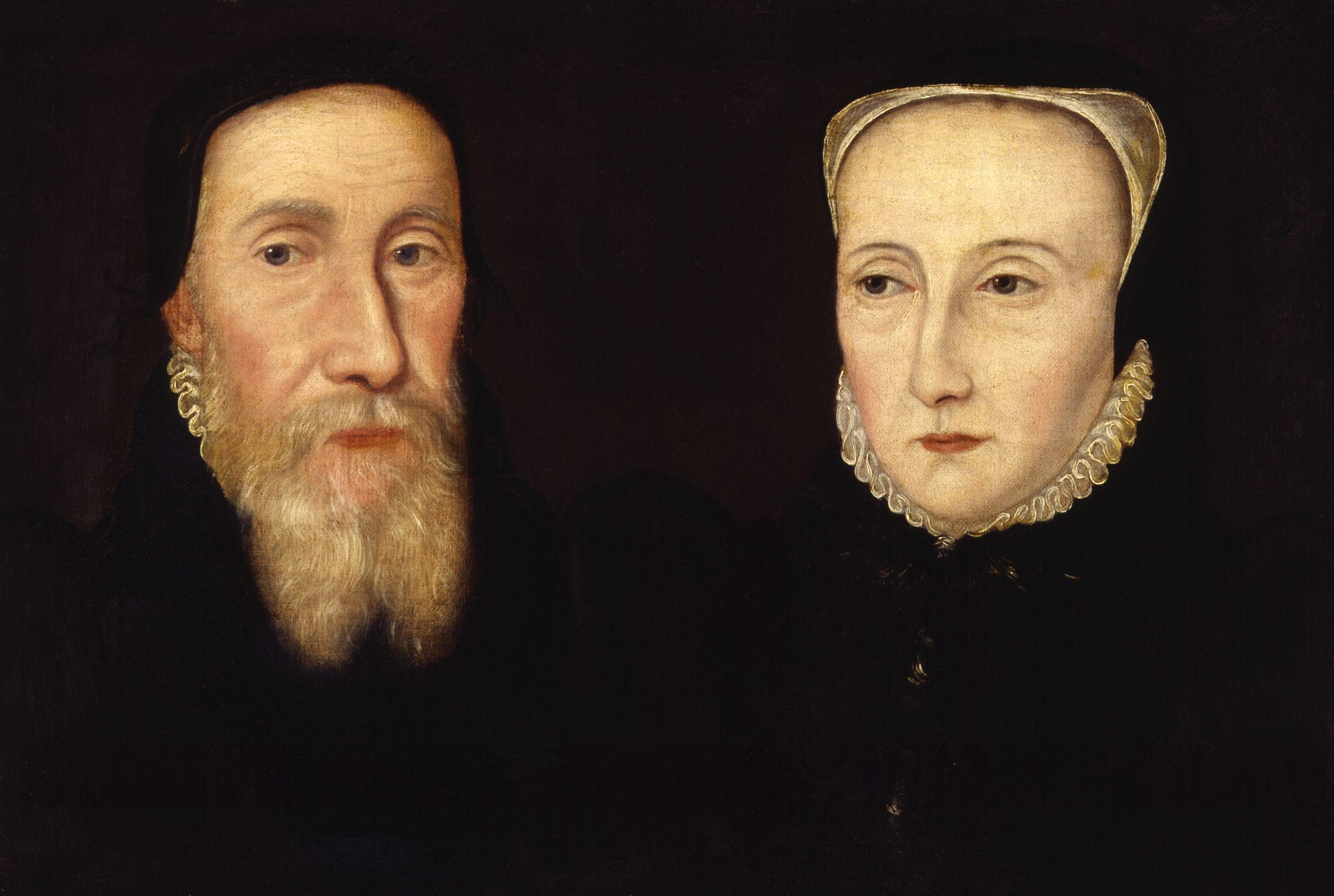 Edwin Sandys; Cicely Sandys (née Wilford)